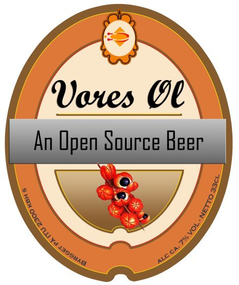 vores oel label (open source beer)